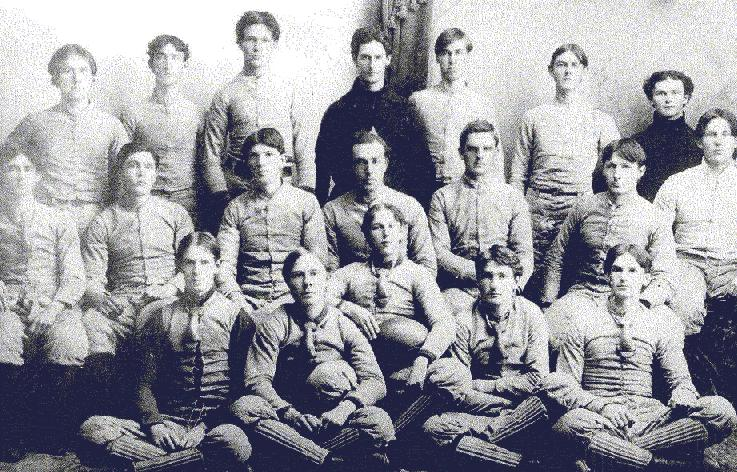 The Clemson Tigers football team of 1896. Coach and future university president Walter Merritt Riggs is in the black coat in the center of the back row.